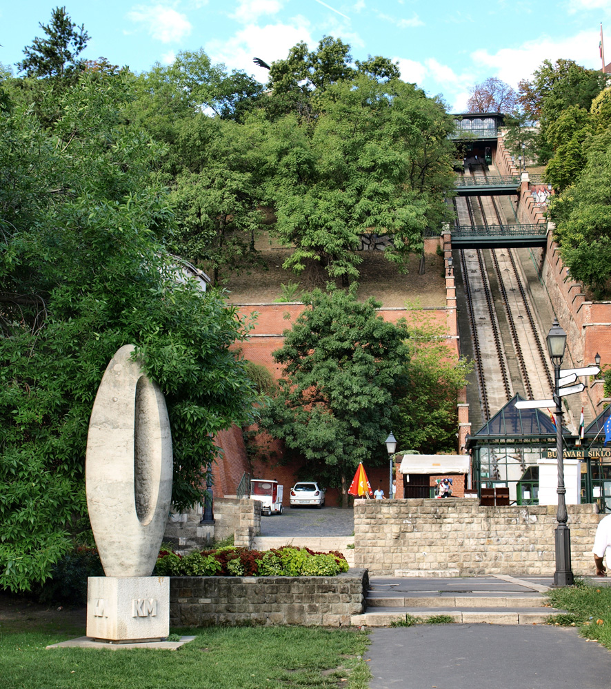 Adam Clark Square, Budapest: The Funiculary leading up to the Castle and the Zero Kilometer "milestone", work of sculptor Miklós Borsos